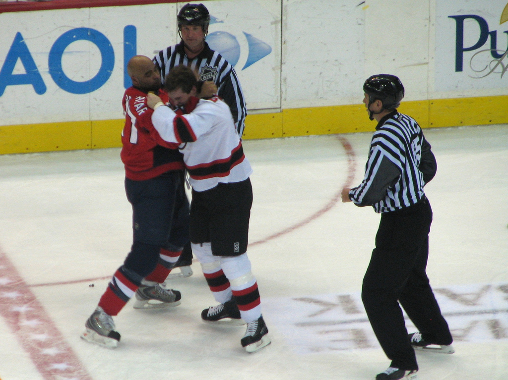 Donald Brashear fighting Sheldon Brookbank